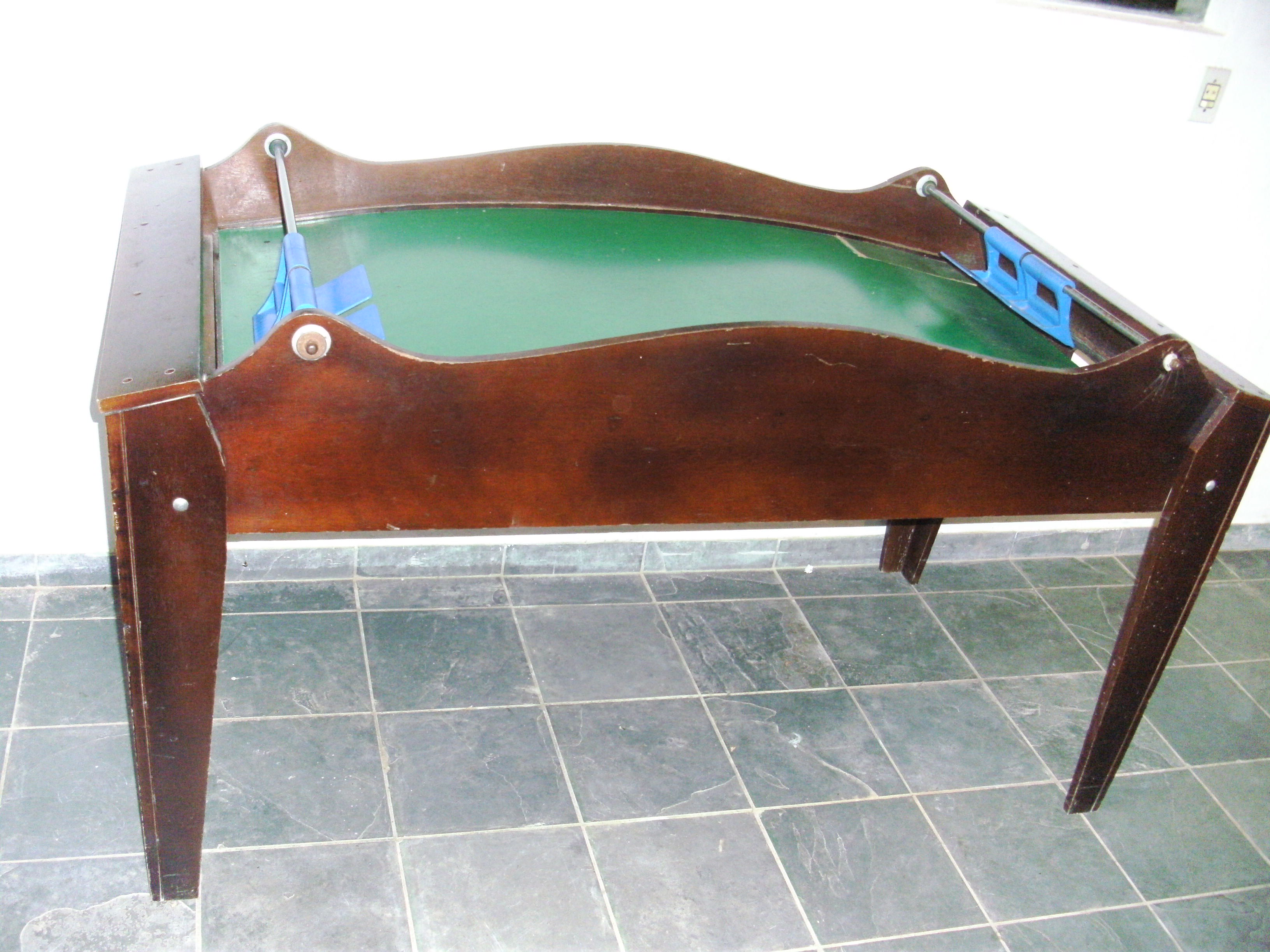 Table to play tamancobol